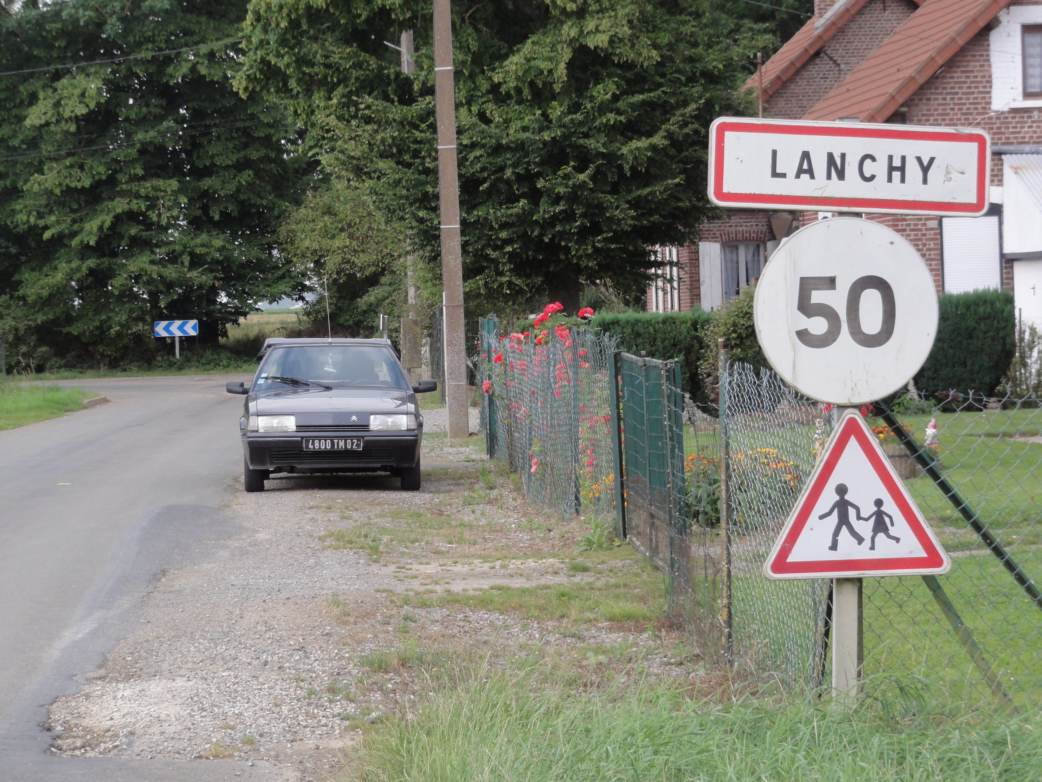 Lanchy (Aisne) city limit sign